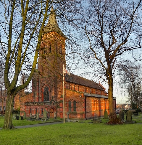 St George's Church, Altrincham in 2012